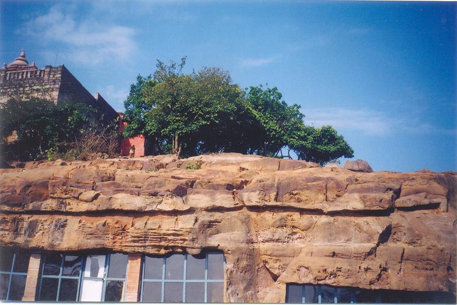 This is a picture of Khandagiri, Bhubaneswar, odisha. It contains rock cut inscriptions of Kharavela, one of the mightiest kings of Kalinga, India